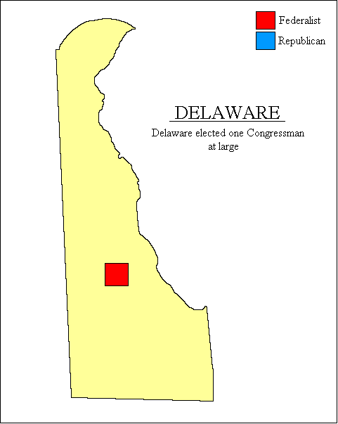 Congressional district map of Delaware for the 5th Congress, 1796